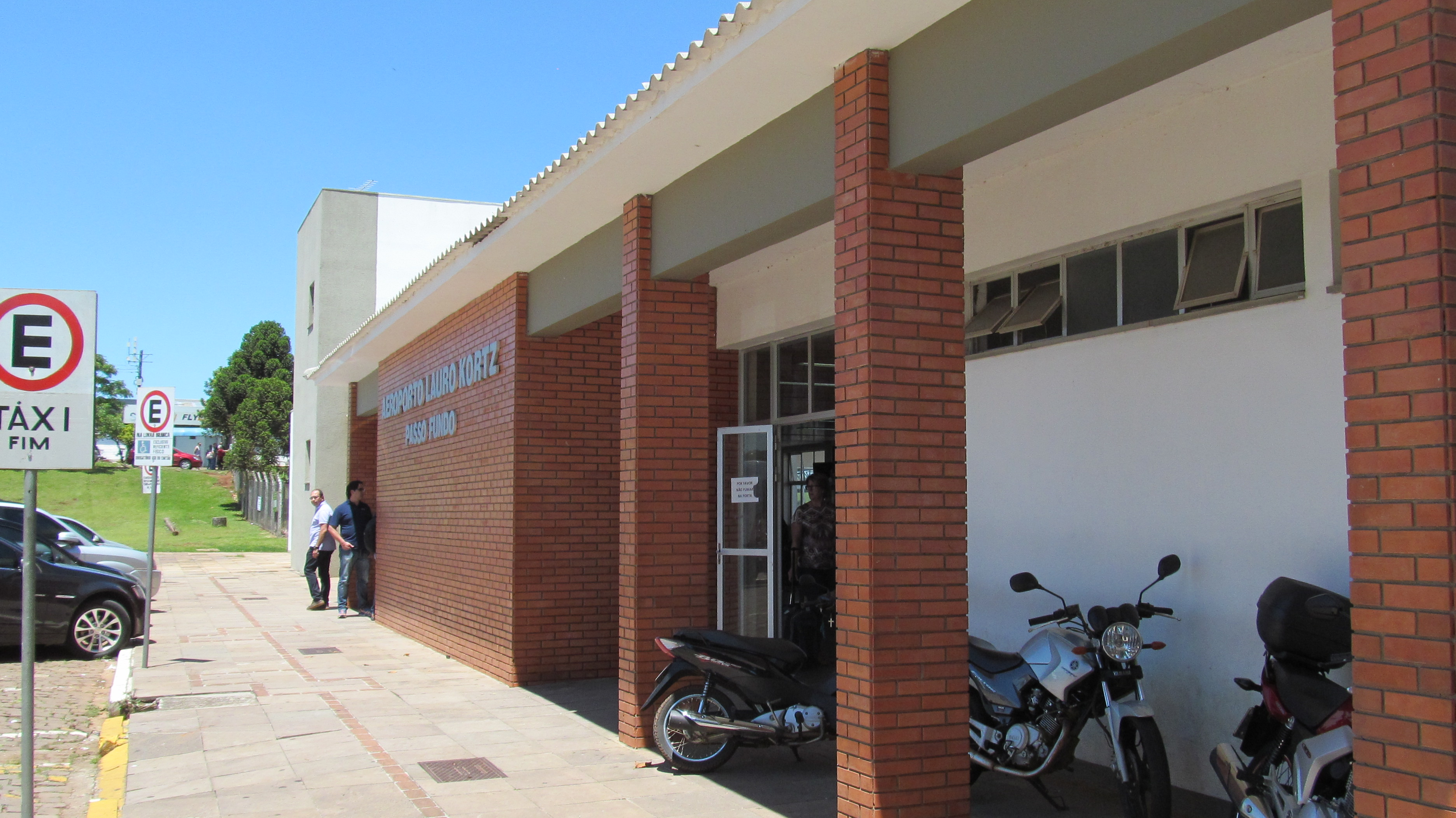 Passo Fundo Airport (PFB), entrance, Rio Grande do Sul, Brazil